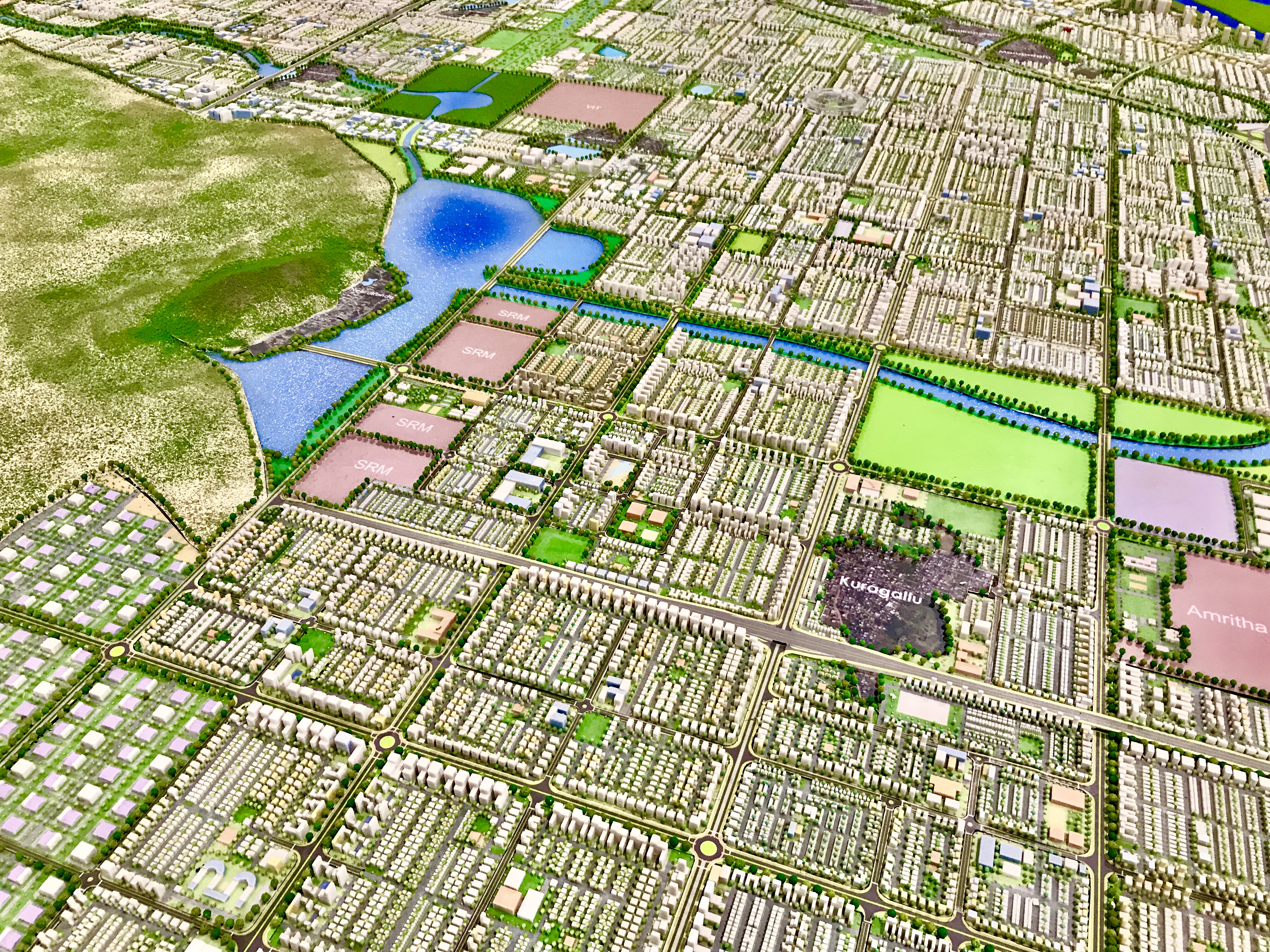 3D Model of Amaravati in APCRDA office, Vijayawada